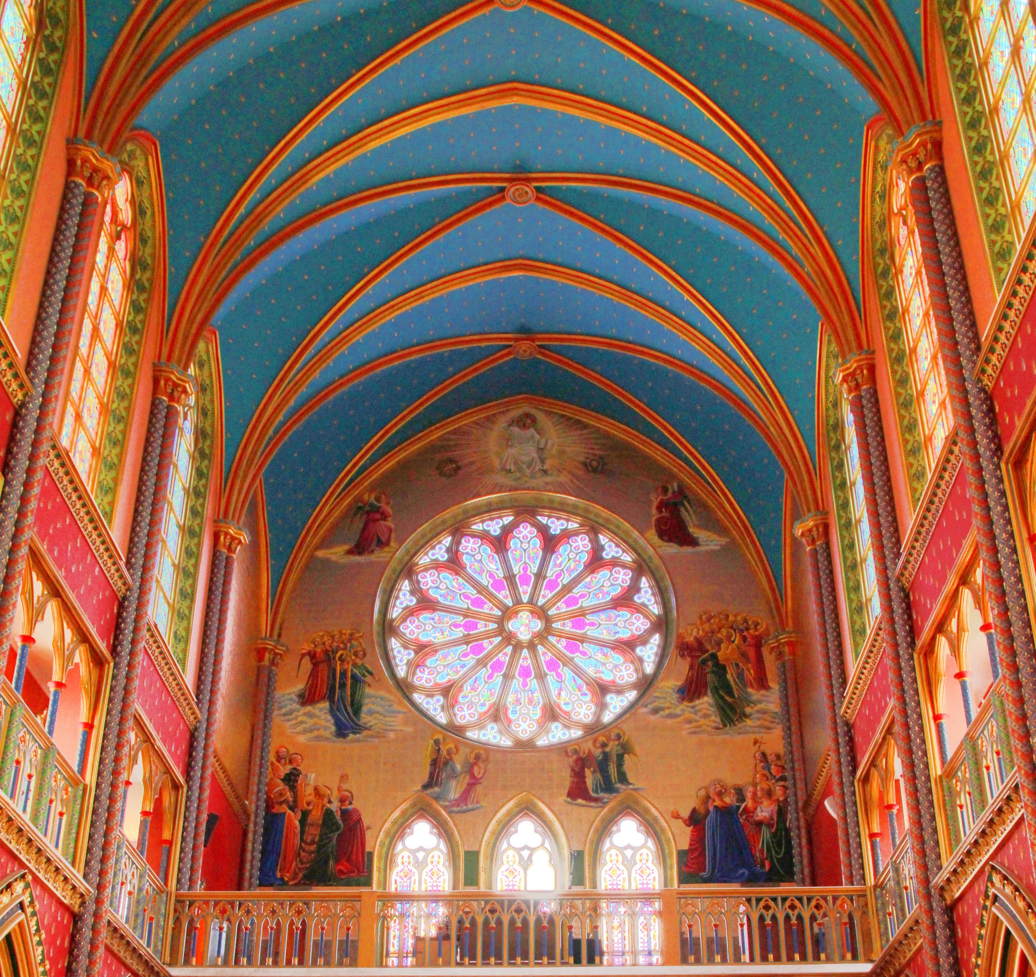 Built between 2004 and 2014